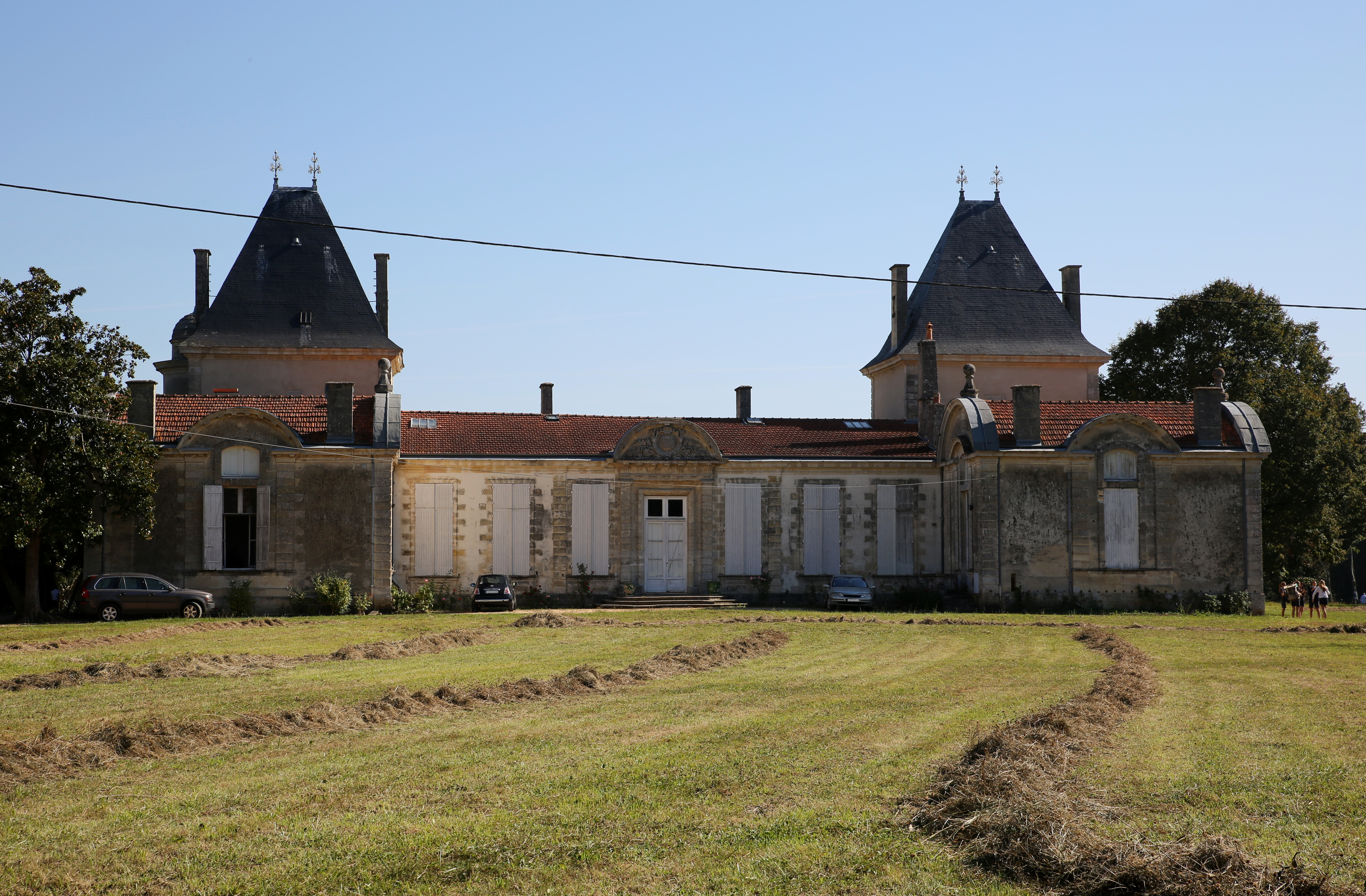 Château Peychaud, Ambarès-et-Lagrave, Gironde, France